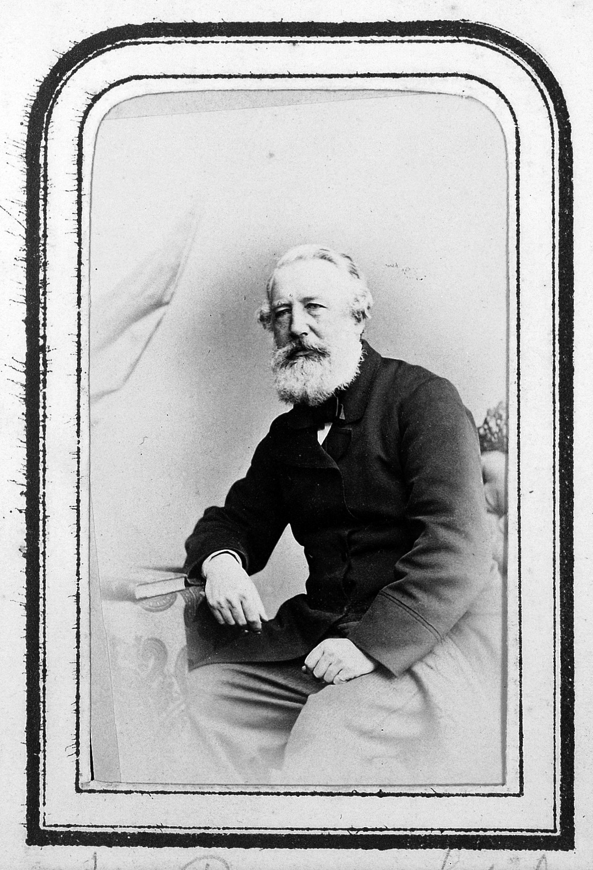 Portrait of Dr Benjamin Hobson, in Canton; anon., n.d. Wellcome Images Keywords: Benjamin Stephen Hobson